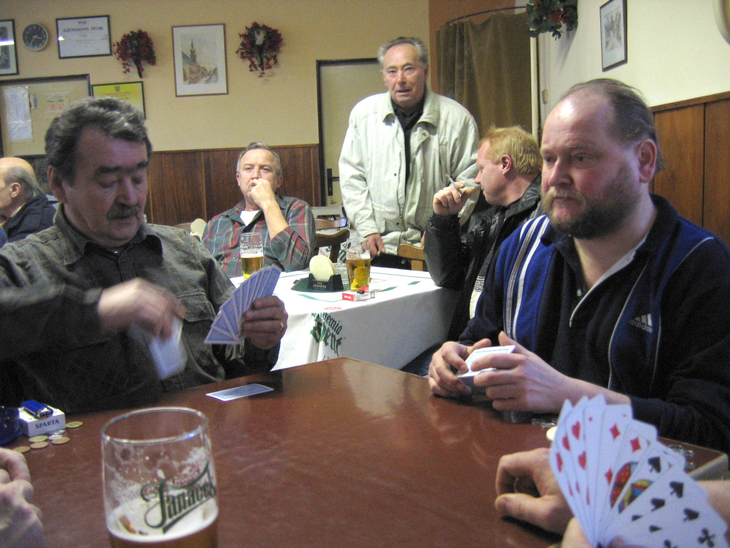 Cards in pub